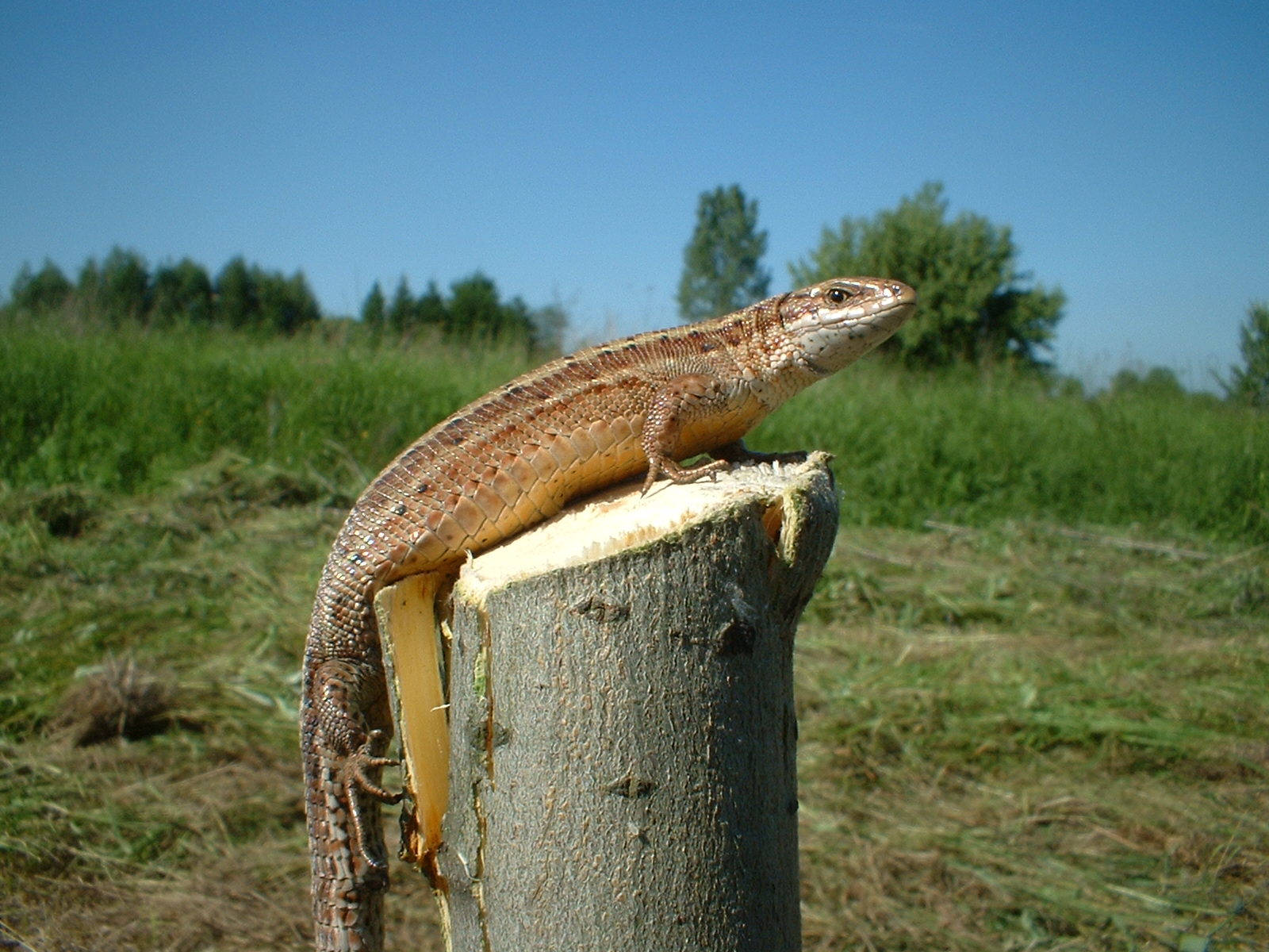 Lacerta vivipara